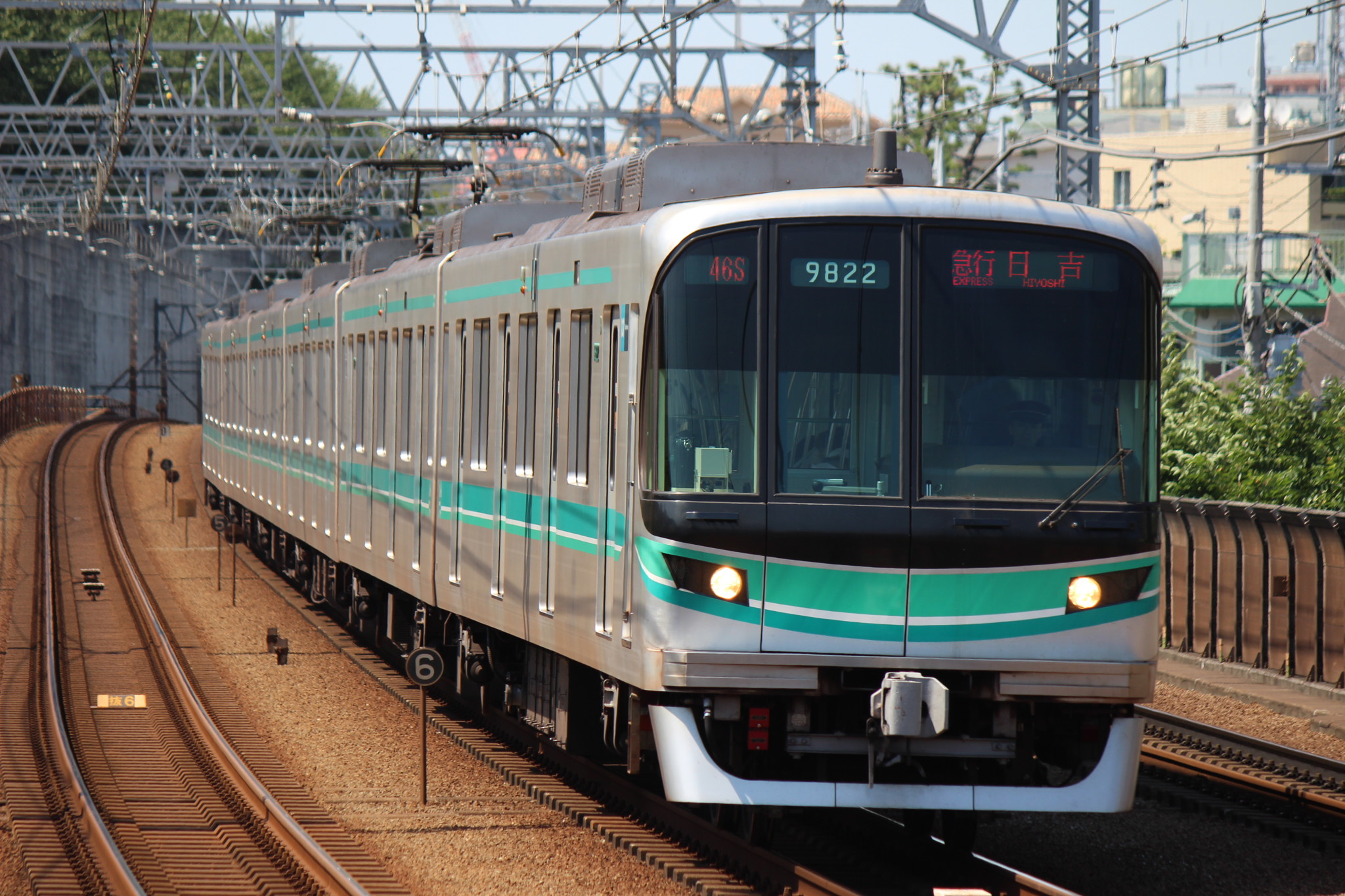 Tokyo Metro 9000 series EMU set 22 (5th batch type) approaching Tamagawa Station on the Tokyu Meguro Line